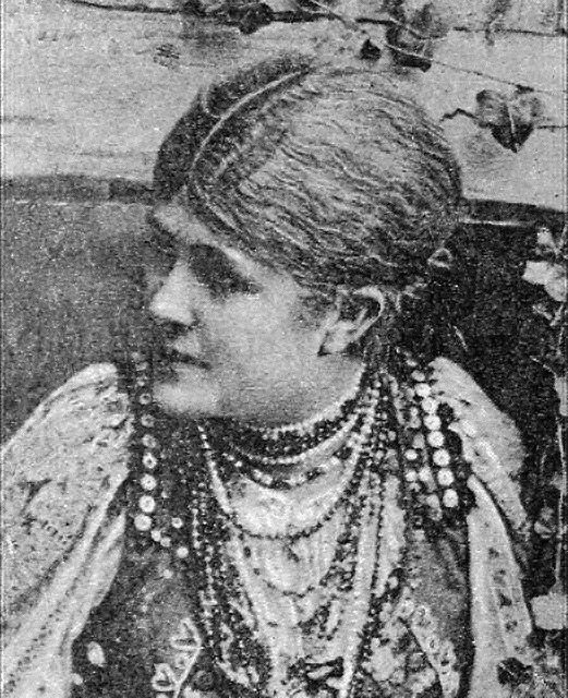 Lujza Blaha (born Ludovika Reindl), 1850-1926, Hungarian actress and singer, photo of 1880. '